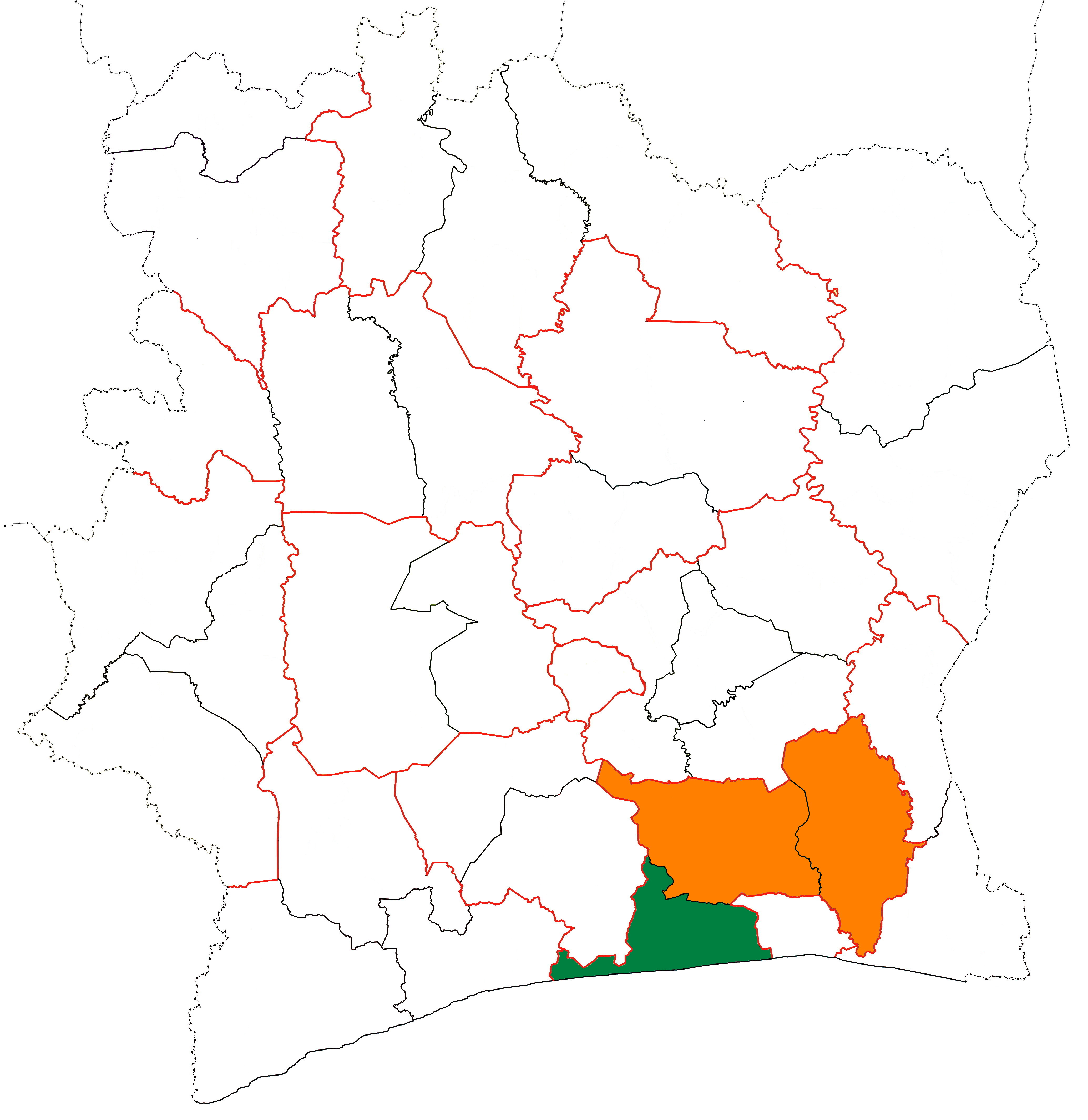 The location of Grands-Ponts region (green) in Côte d'Ivoire. The other shaded areas represent the other parts of Lagunes District.